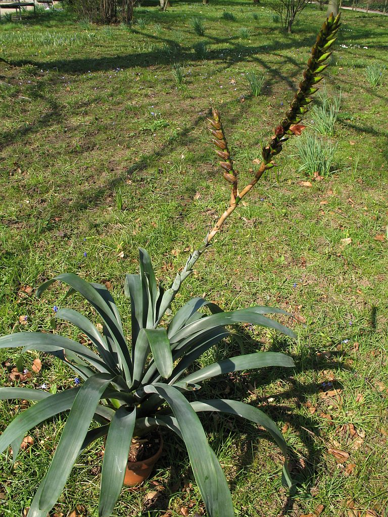 Werauhia ochracea in cultivation at the Botanical Garden of Heidelberg, Germany.